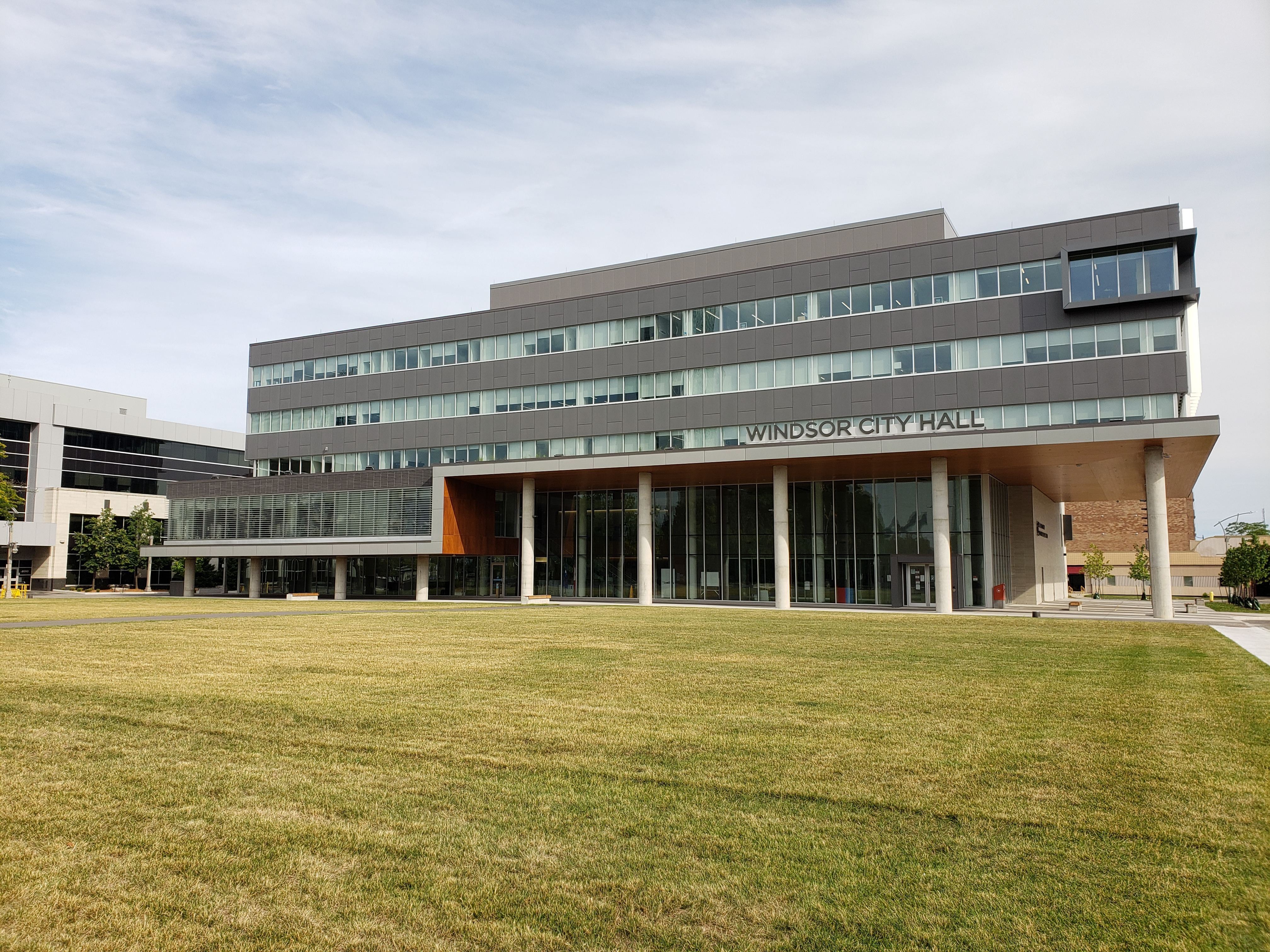 The new Windsor City Hall, opened in 2018.